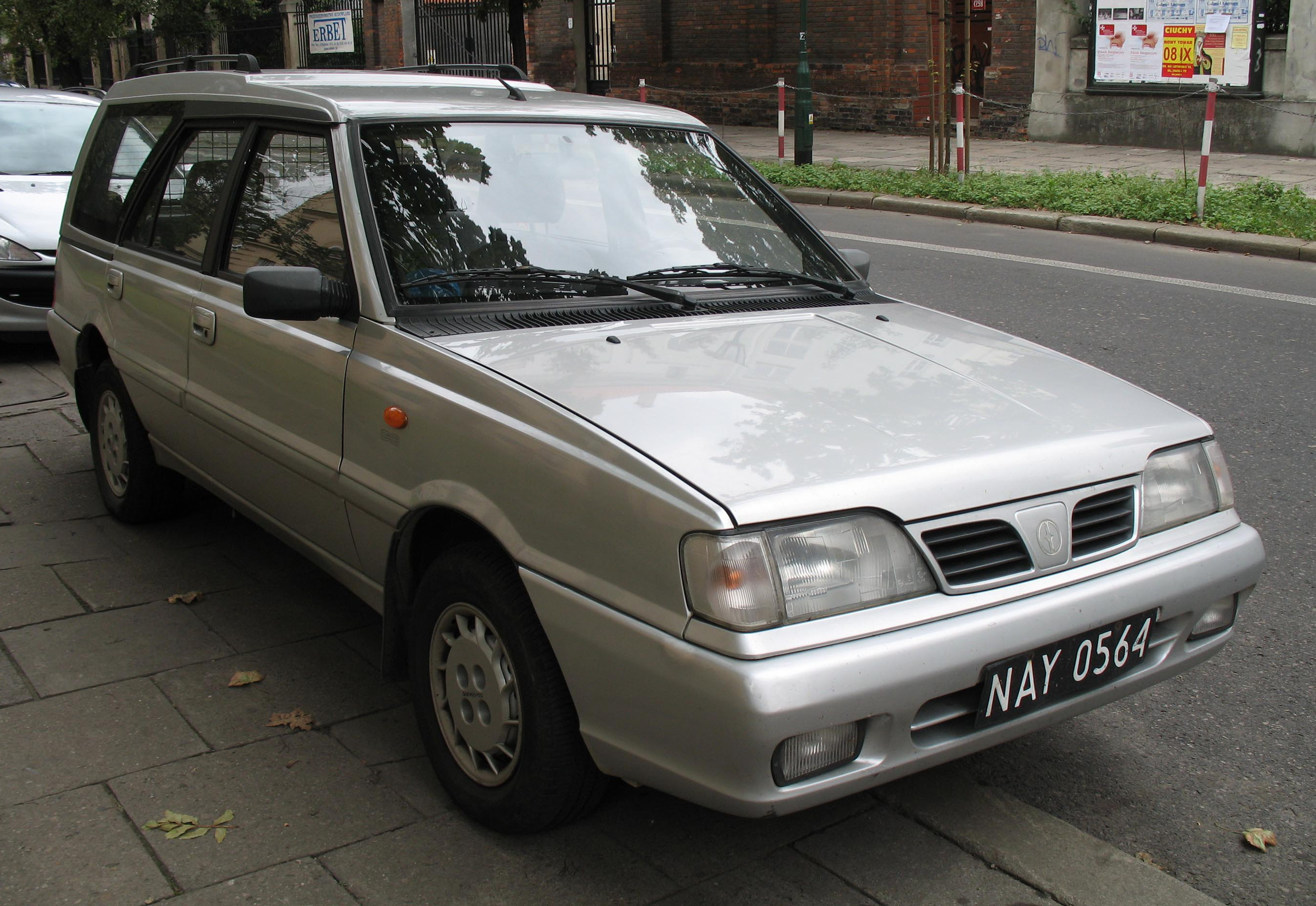 Daewoo-FSO Polonez Kombi 1.6 MPi car in Kraków, Poland.